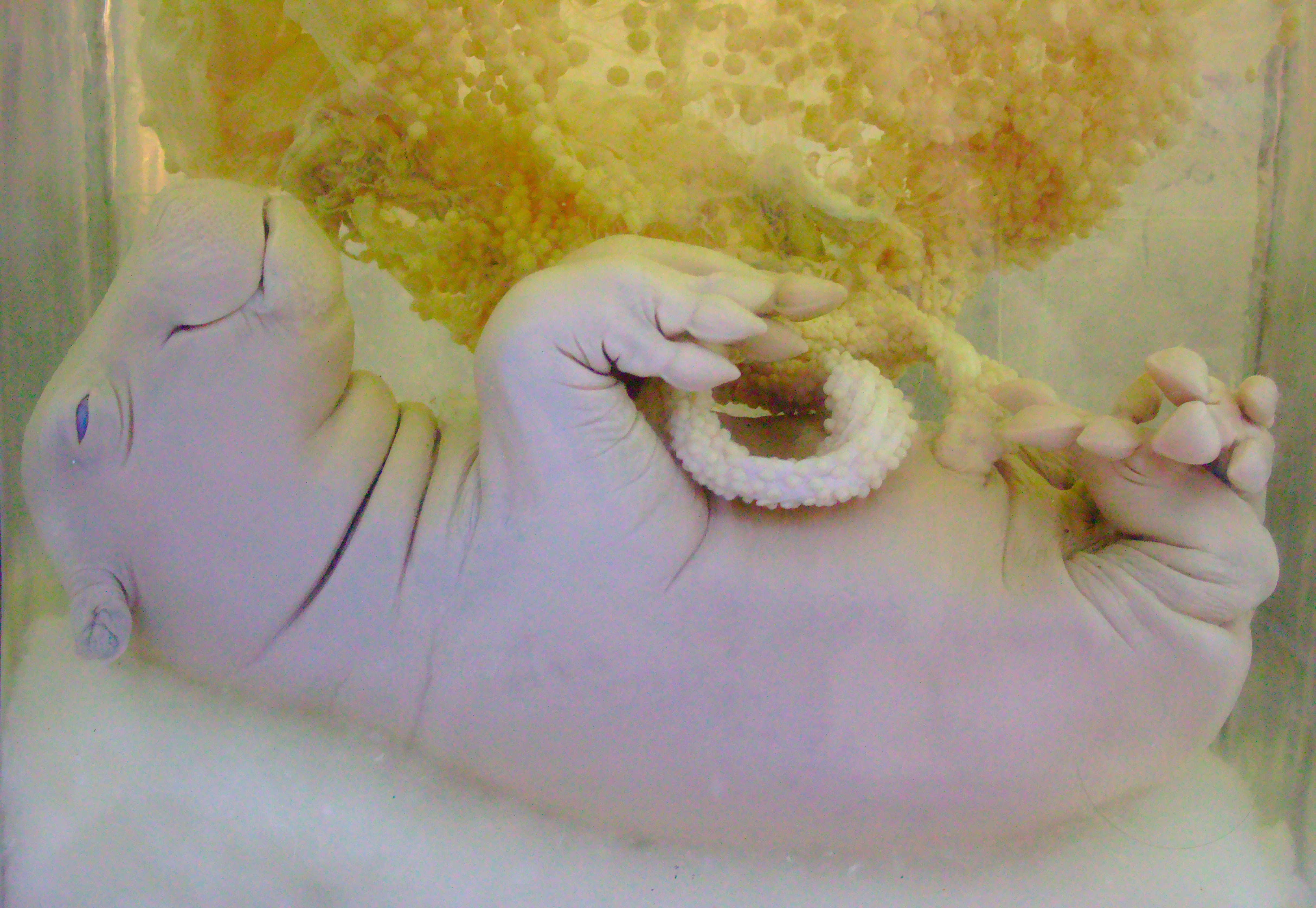 A hippo fetus from the collection of the Napier Natural History Museum in Thiruvananthapuram.